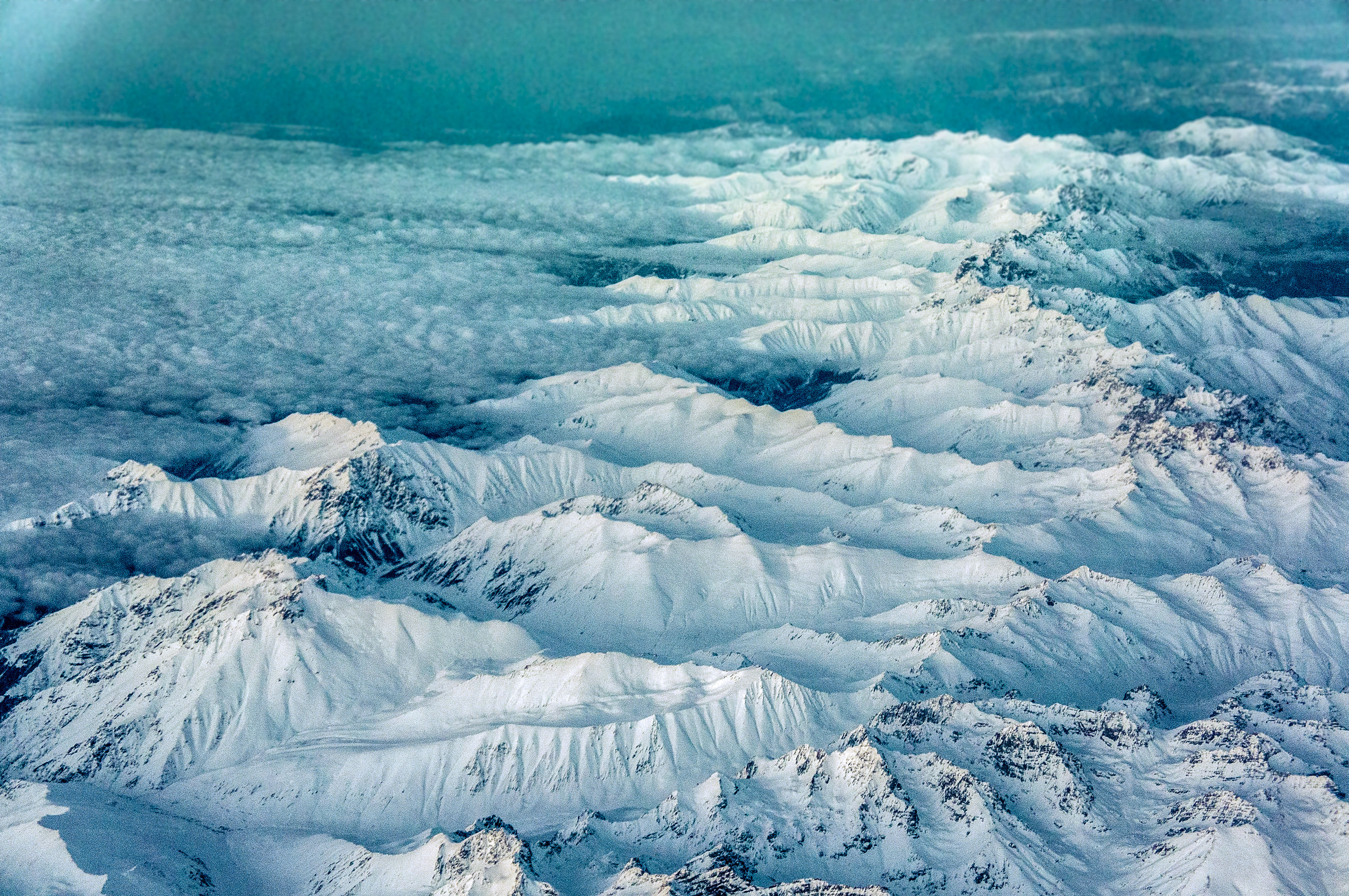 View of Turkey's Kaçkar mountains from a plane